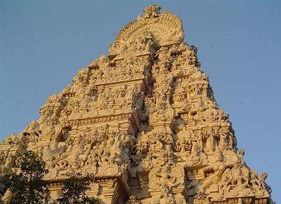 photographed by Pratheepps